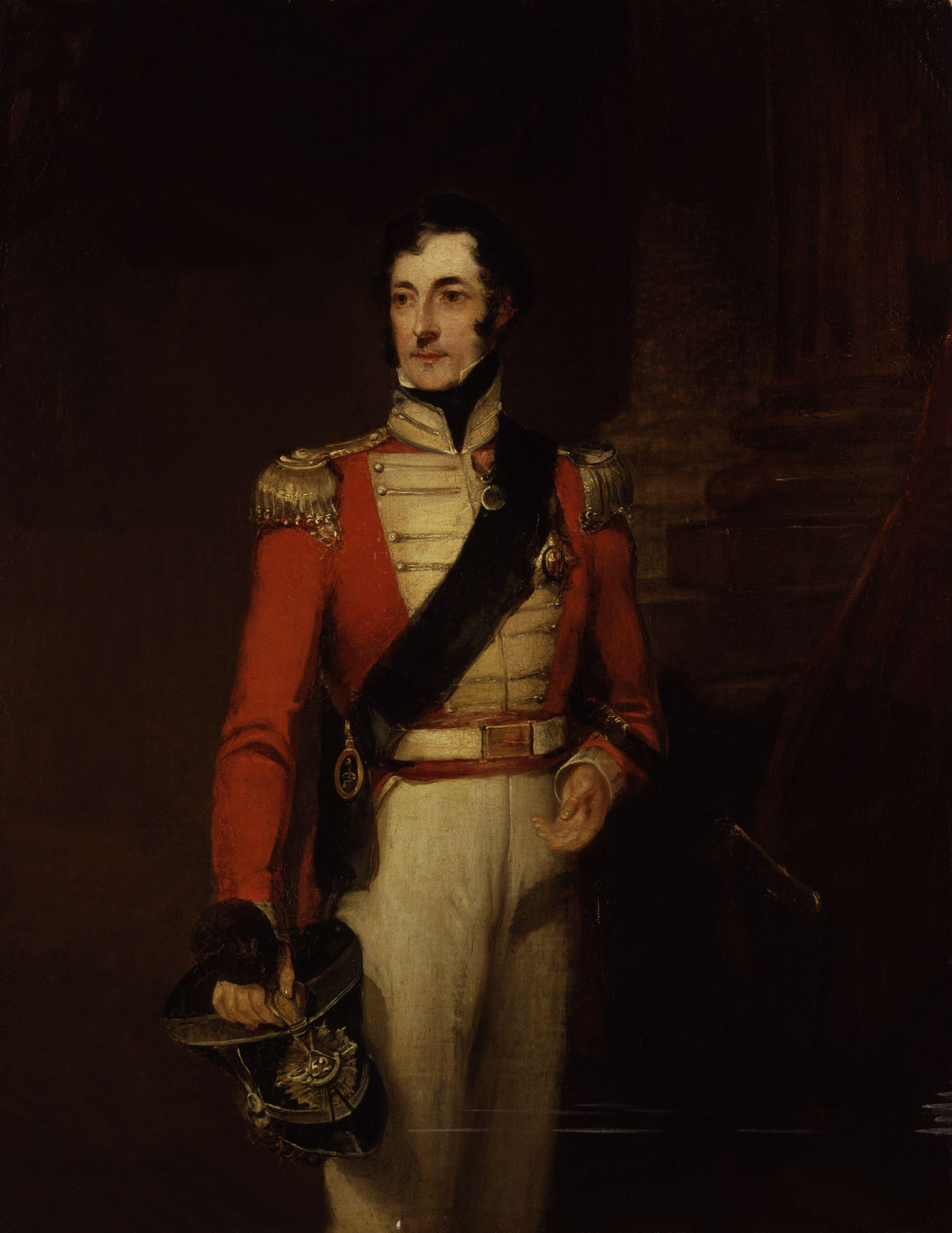 Charles Gordon-Lennox, 5th Duke of Richmond and Lennox, by William Salter (died 1875). All images in this batch have been confirmed as author died before 1939 according to the official death date listed by the NPG.